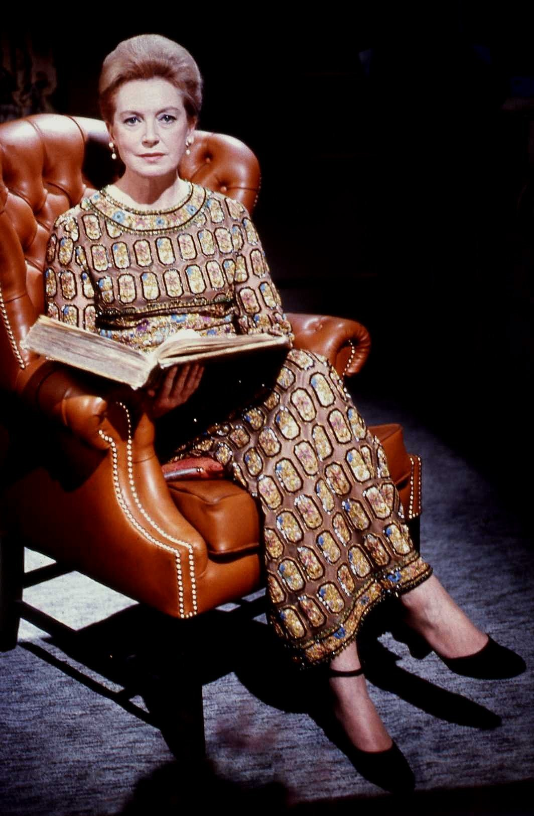 Deborah Kerr